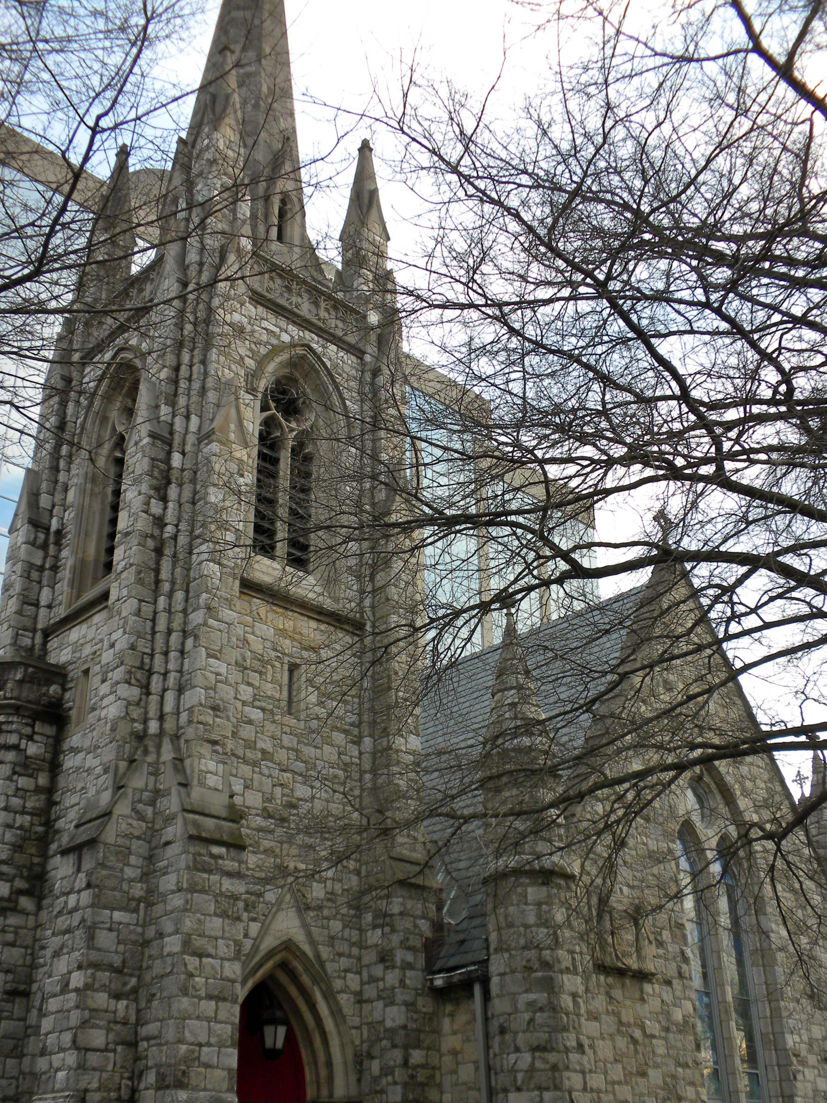 Trinity Episcopal Church in Wilmington, Delaware 1108 N. Adams St. built in 1880's. On NRHP. Note that this is NOT Holy Trinity Church in Wilmington, which is also on the NRHP, and is owned by the same congregation!